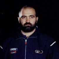 Photo taken and released on Wikimedia directly by the basketball club.